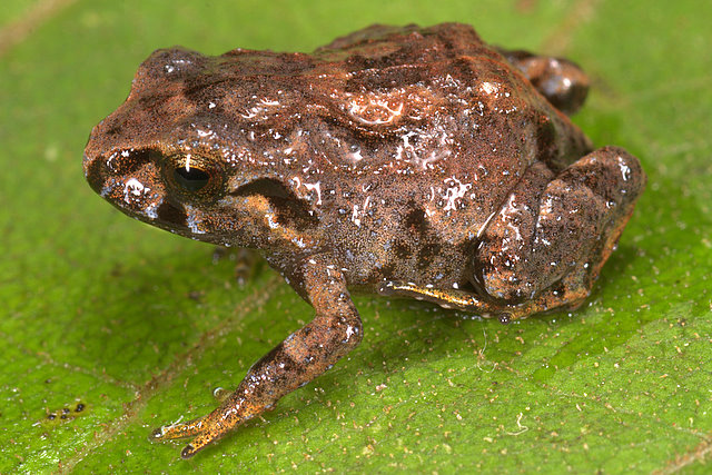 Bryophryne gymnotis